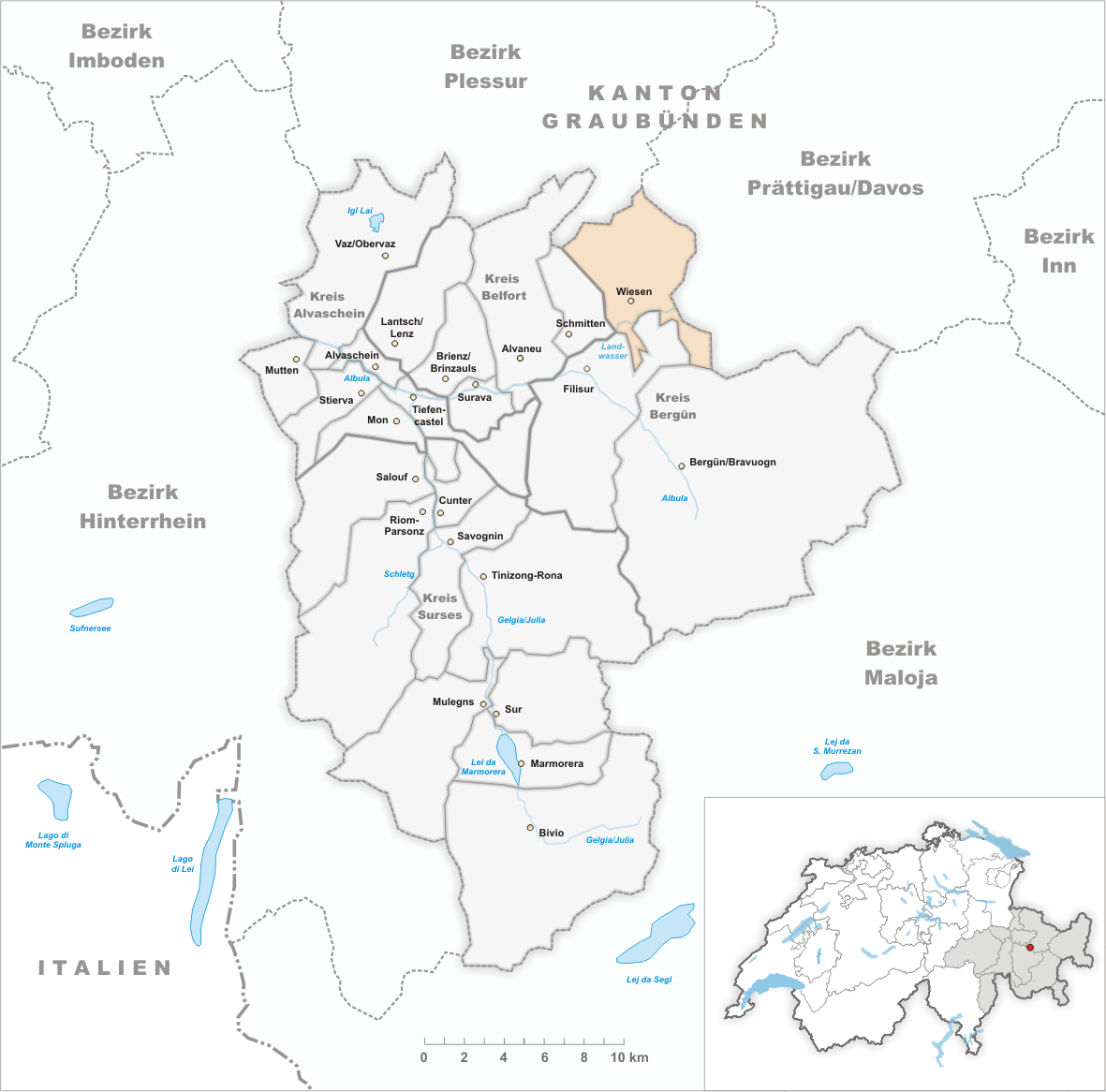 Municipality Wiesen